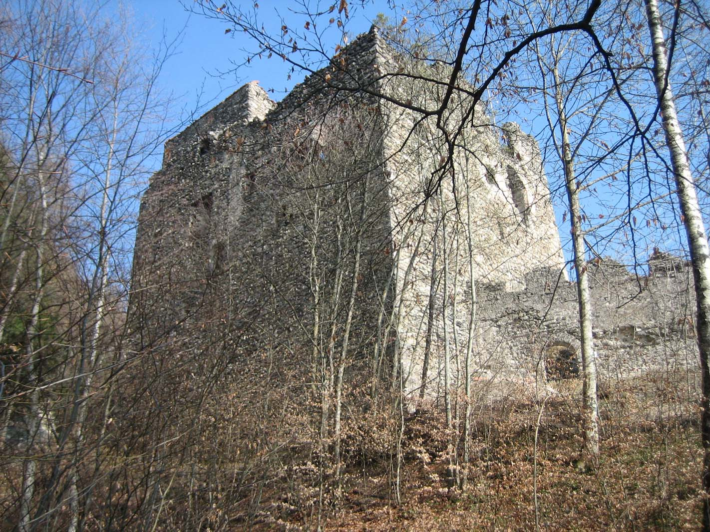 Aspermont Wohntrakt